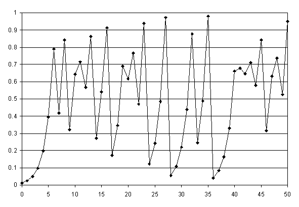 diagram of the first 50 iterations of the baker's map on the unit interval for the initial value 0.0123456789